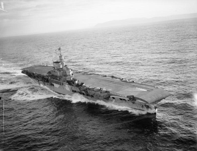 IWM caption : An aerial view of HMS Victorious at sea. Steam can be seen venting from the catapult towards the front of the flight deck.